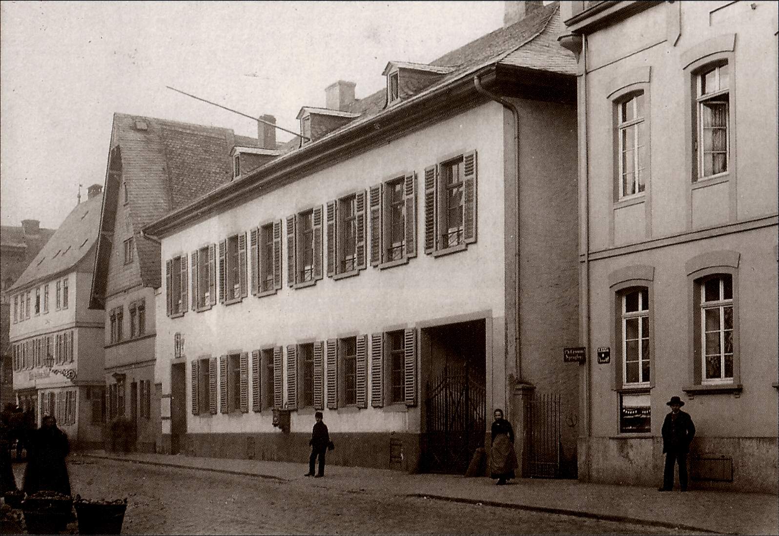 Das Kronberger Haus in der Höchster Hauptstraße (Bolongarostraße) um 1870